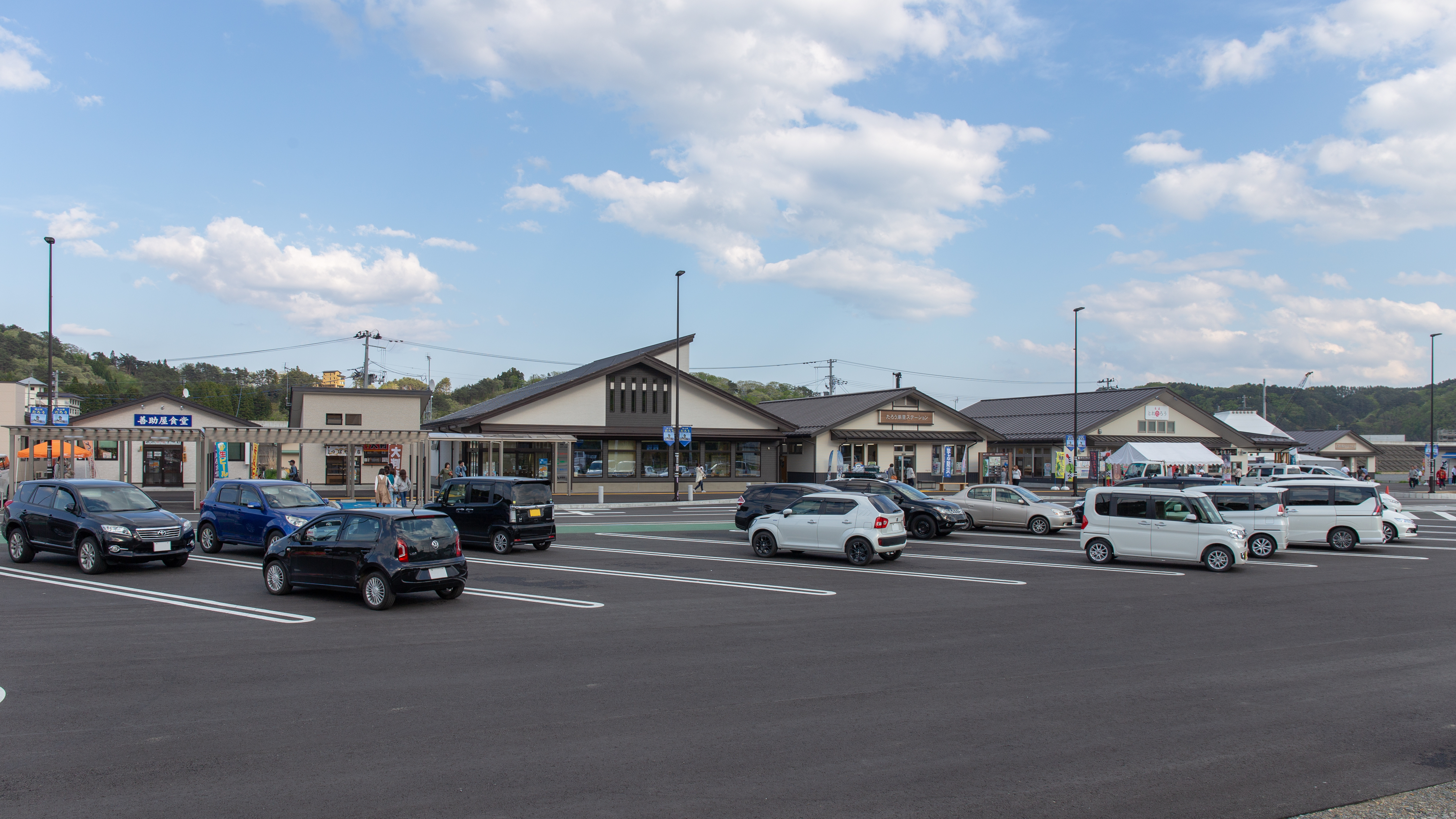 Michinoeki Taro on the Japanese National Route 45 in Miyako City, Iwate Prefecture, Japan